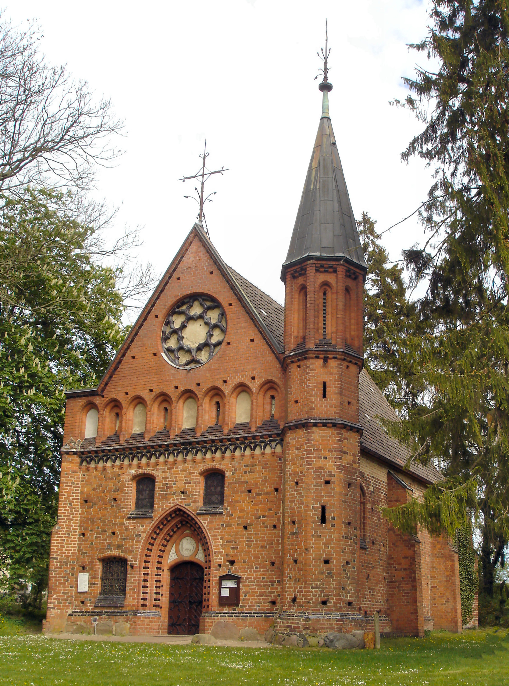 Kloster Doberan Kapelle Althof / Monastery Doberan, chapel in Althof